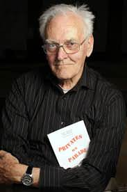 Photograph of Peter Richard Nichols